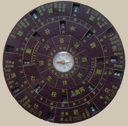 A modern Qi Men Du Jia Luopan